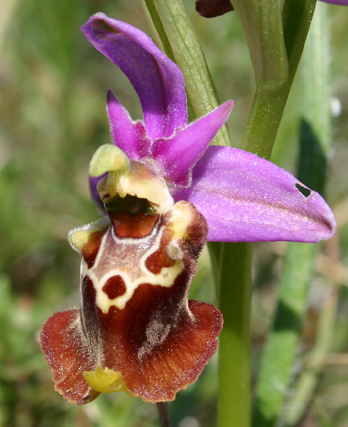 Ophrys apulica